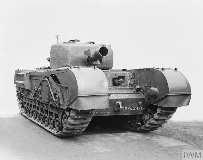 Churchill AVRE (Armoured Vehicle Royal Engineers) "Flying Dustbin" armed with a 290mm spigot mortar which fired a 40lb (18kg) charge up to 80 yards (72m). Its purpose was to destroy concrete.